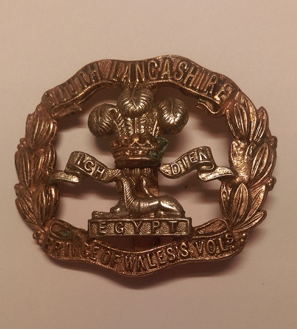 Photo of South Lancashire Regiment Cap Badge from personal collection